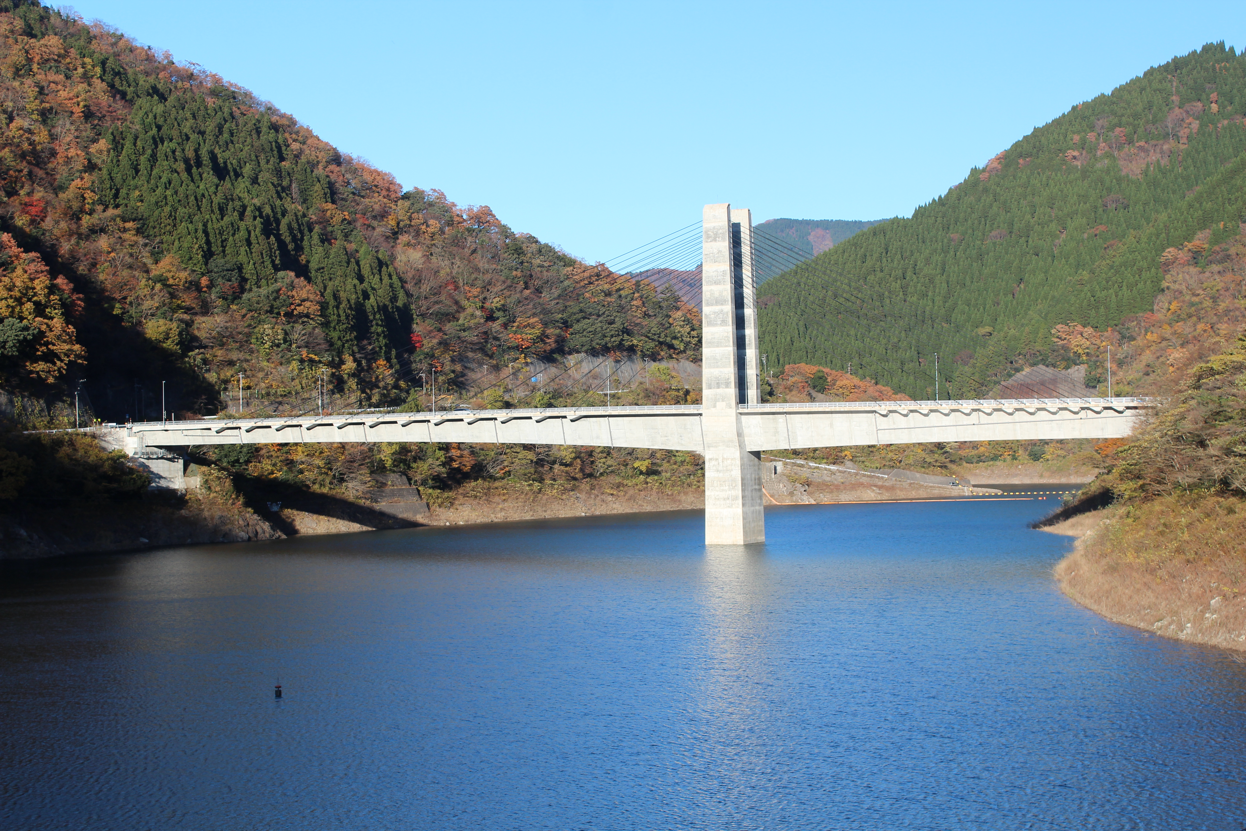 Okuibiko Bridge of Route 303 over Ibi River in Ibigawa, Gifu Prefecture, Japan.